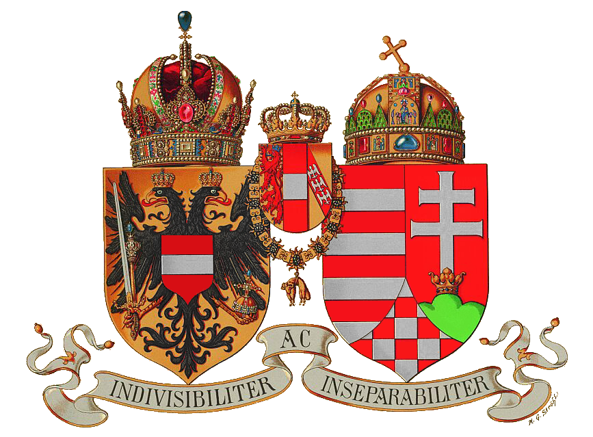 Lesser common Coat of Arms of Austria-Hungary 1916